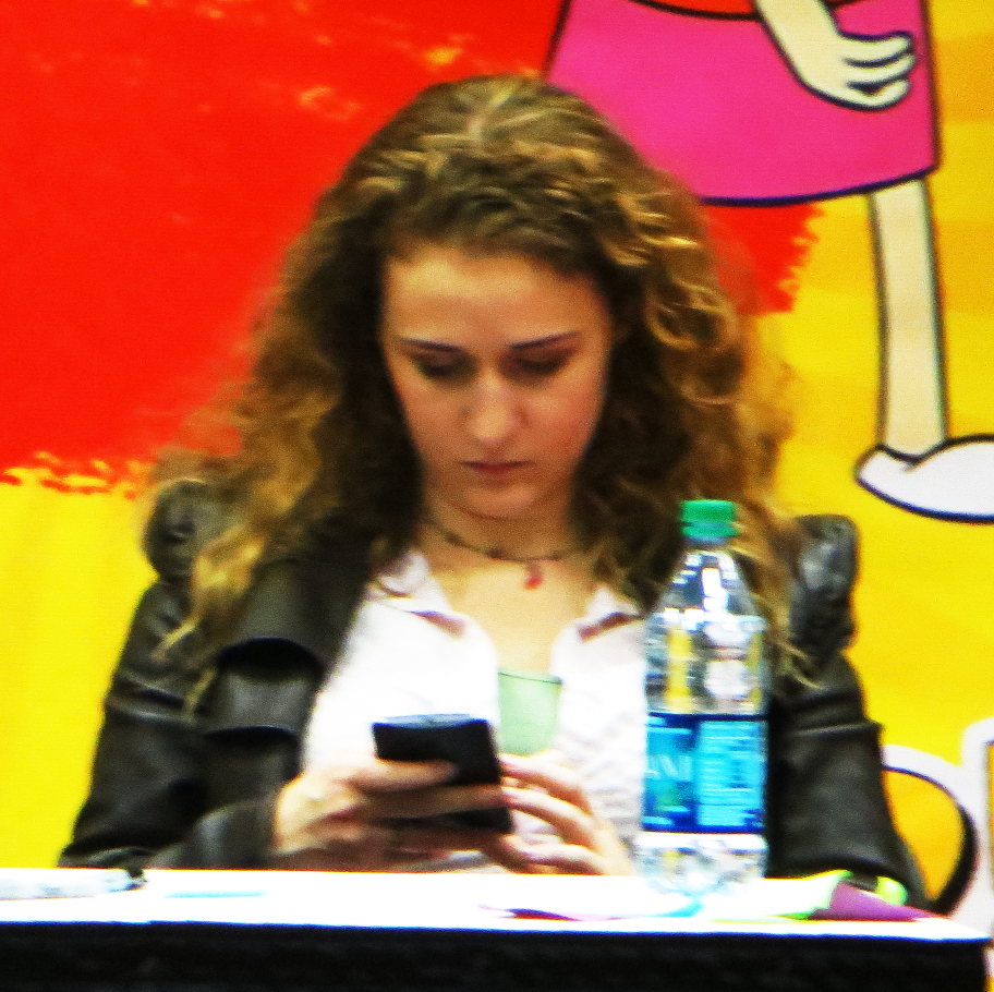 Francesca Smith at 2015 Comic Con